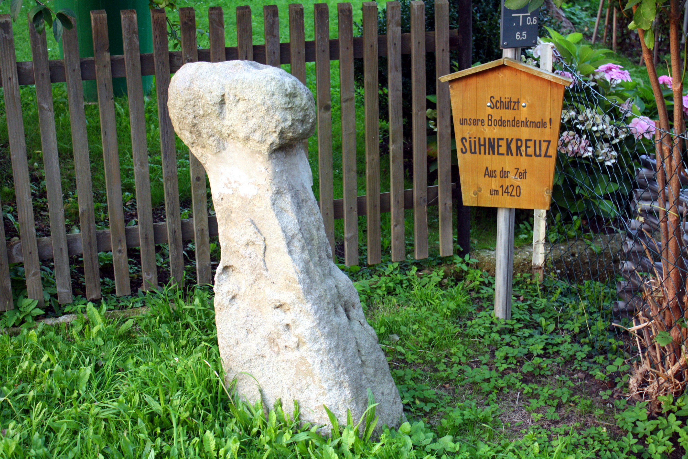 Atonement cross in Pölzig-Beiersdorf near Gera/Thuringia